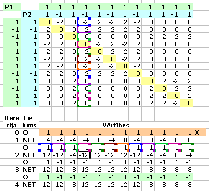 Illustration of training a Hopfield net and recognizing a pattern.